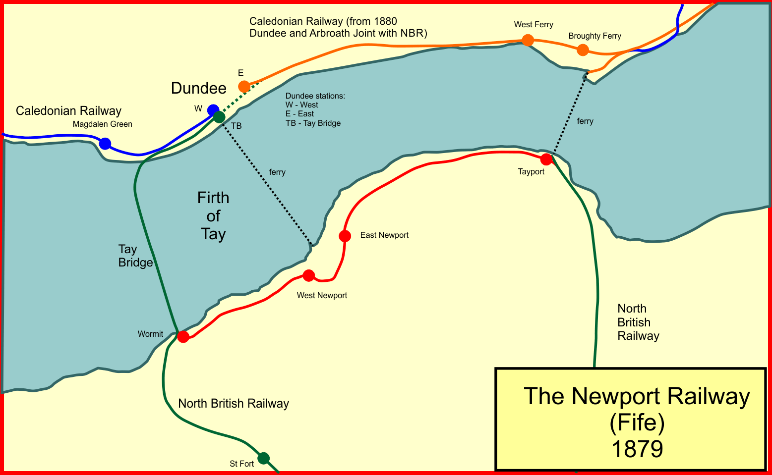 SYstem map of the Newport Railway, Fife, Scotland, in 1879